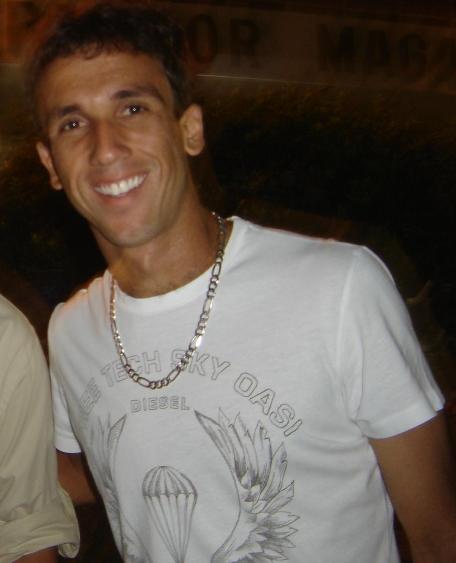 Brazilian football player Thiago Ribeiro